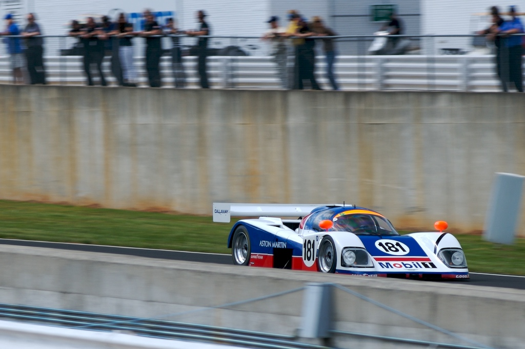 An Aston Martin AMR1 seen as a Historic Sportscar Racing event